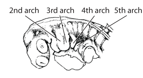 Standard Event System character depiction